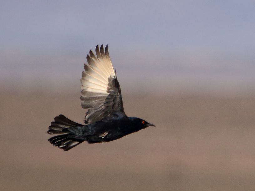 Pale-winged starling Onychognathus nabouroup in flight at Karoo National Park, South Africa.